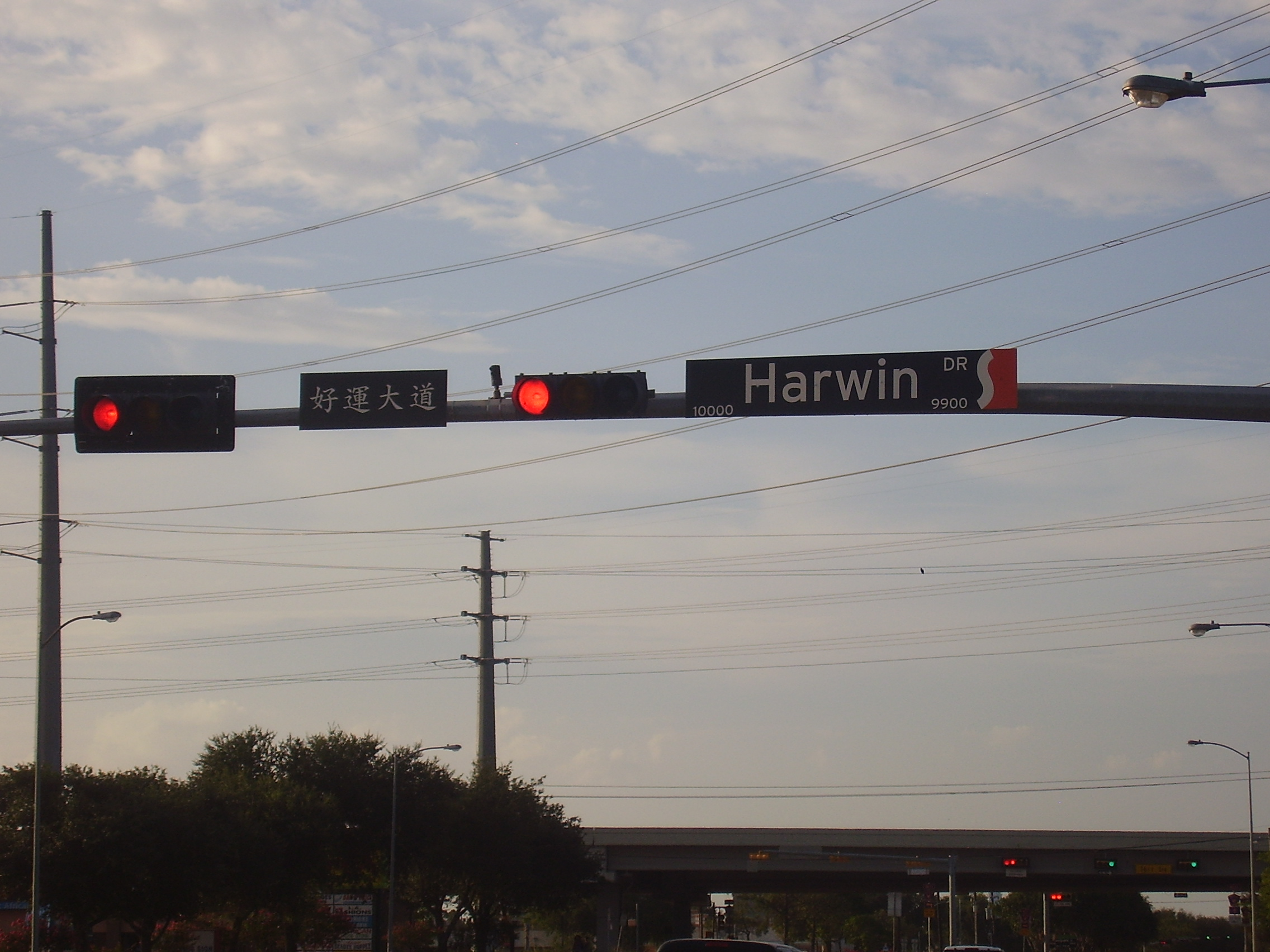 Harwin Drive (好運大道 Hǎoyùn Dàdào) in Chinatown and Greater Sharpstown